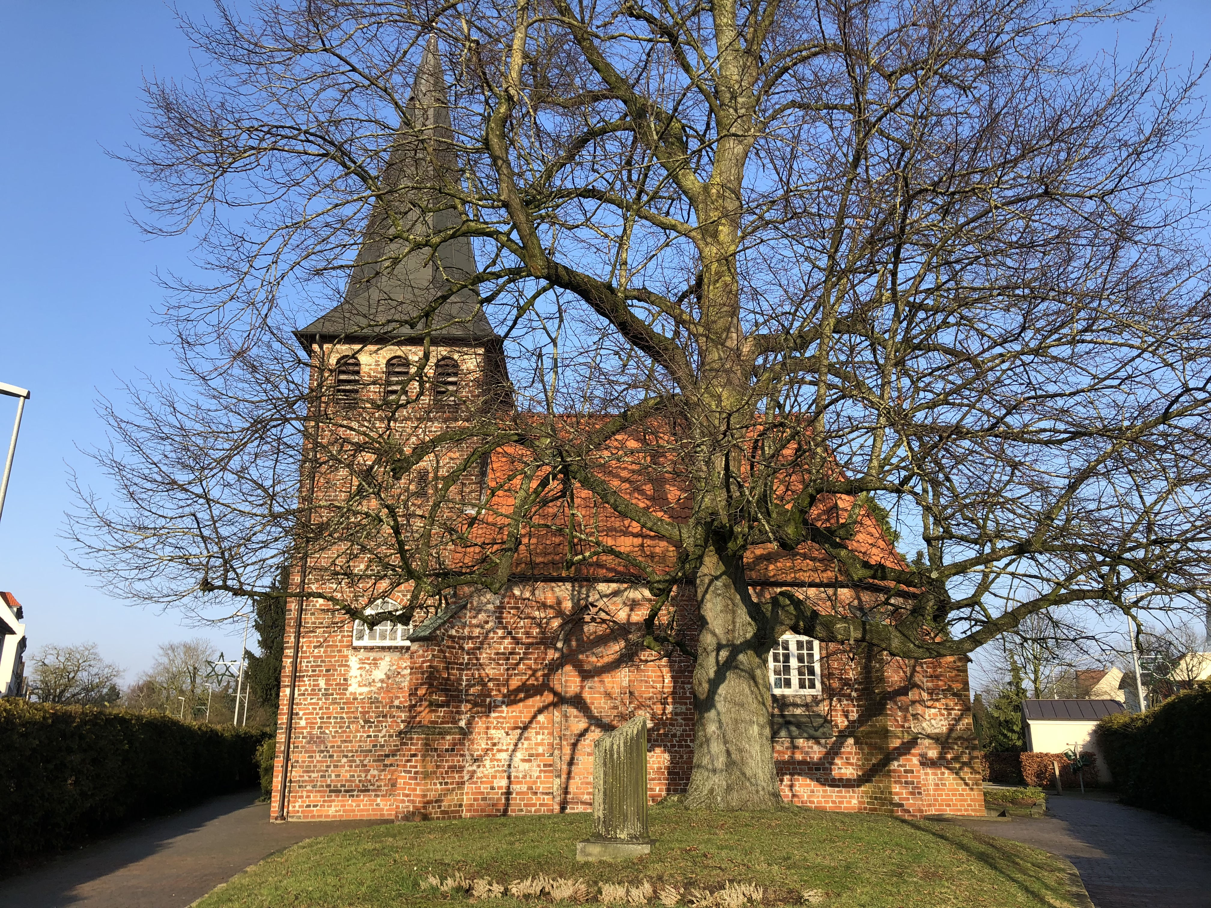 St. Gertrud's chapel and cemetery's lime tree (the shoot of the original tree) from south